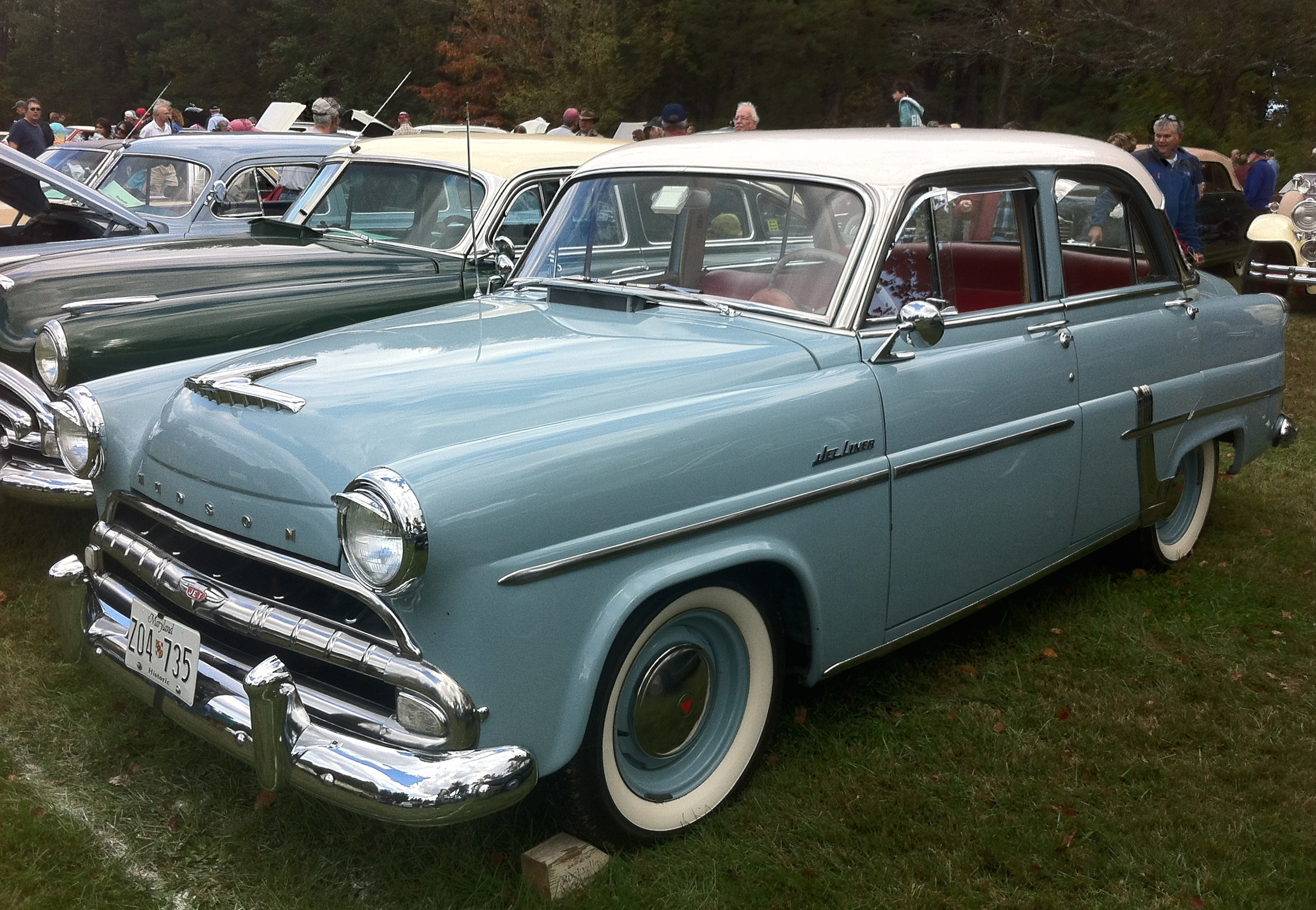 1954 Hudson Jet, a small-sized automobile. This is the top-of the line "Liner" model. Picture taken at the 2014 Rockville Antique and Classic Car Show held at the Rockville Civic Center Park in Maryland.